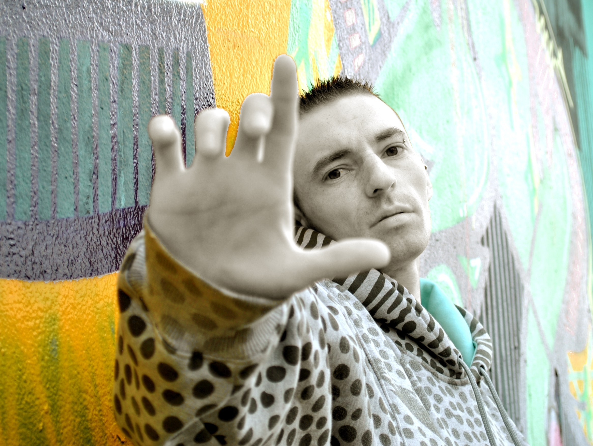 Casper Hight 2010